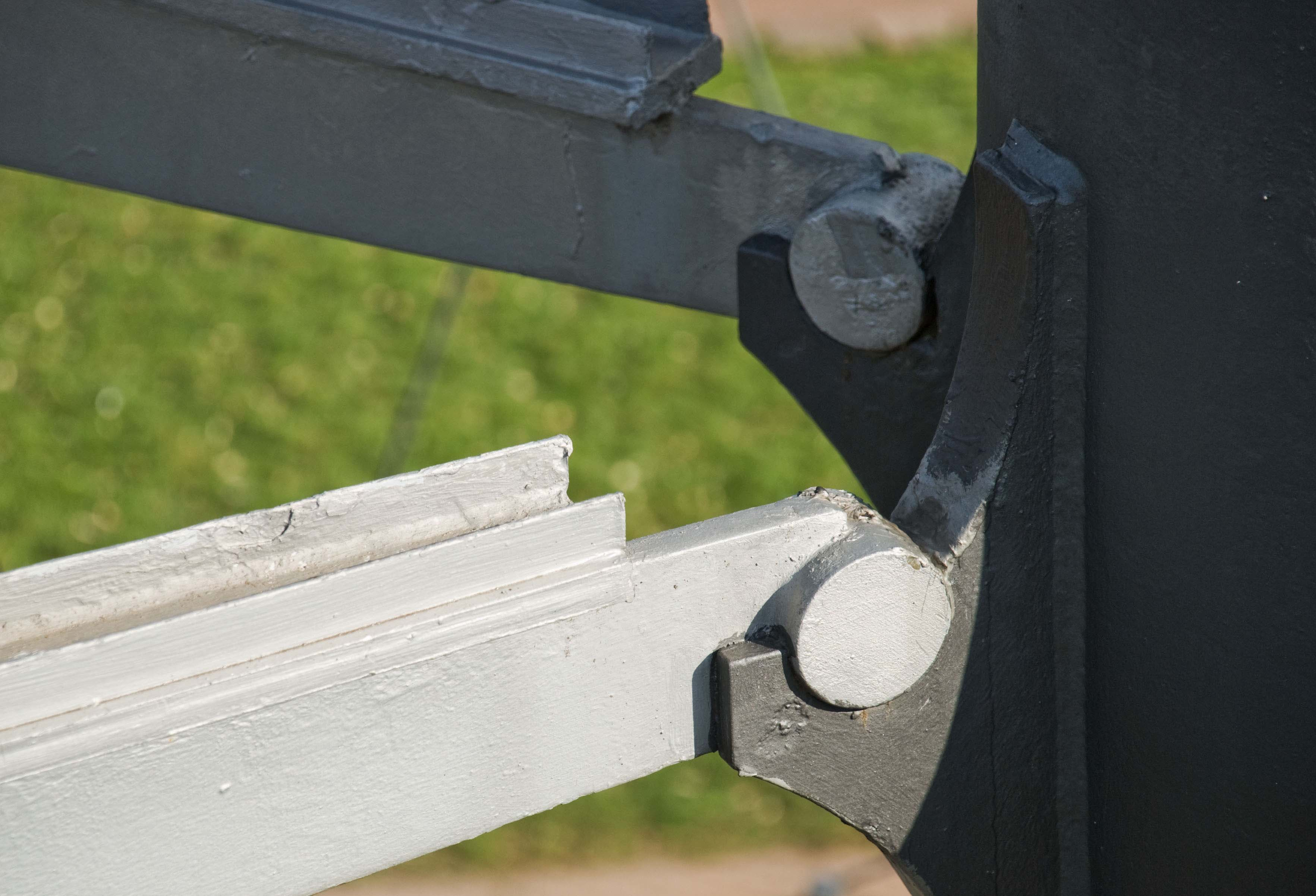 Killesberg Tower, Stuttgart, Germany. Bearings between visitor platform and central pole